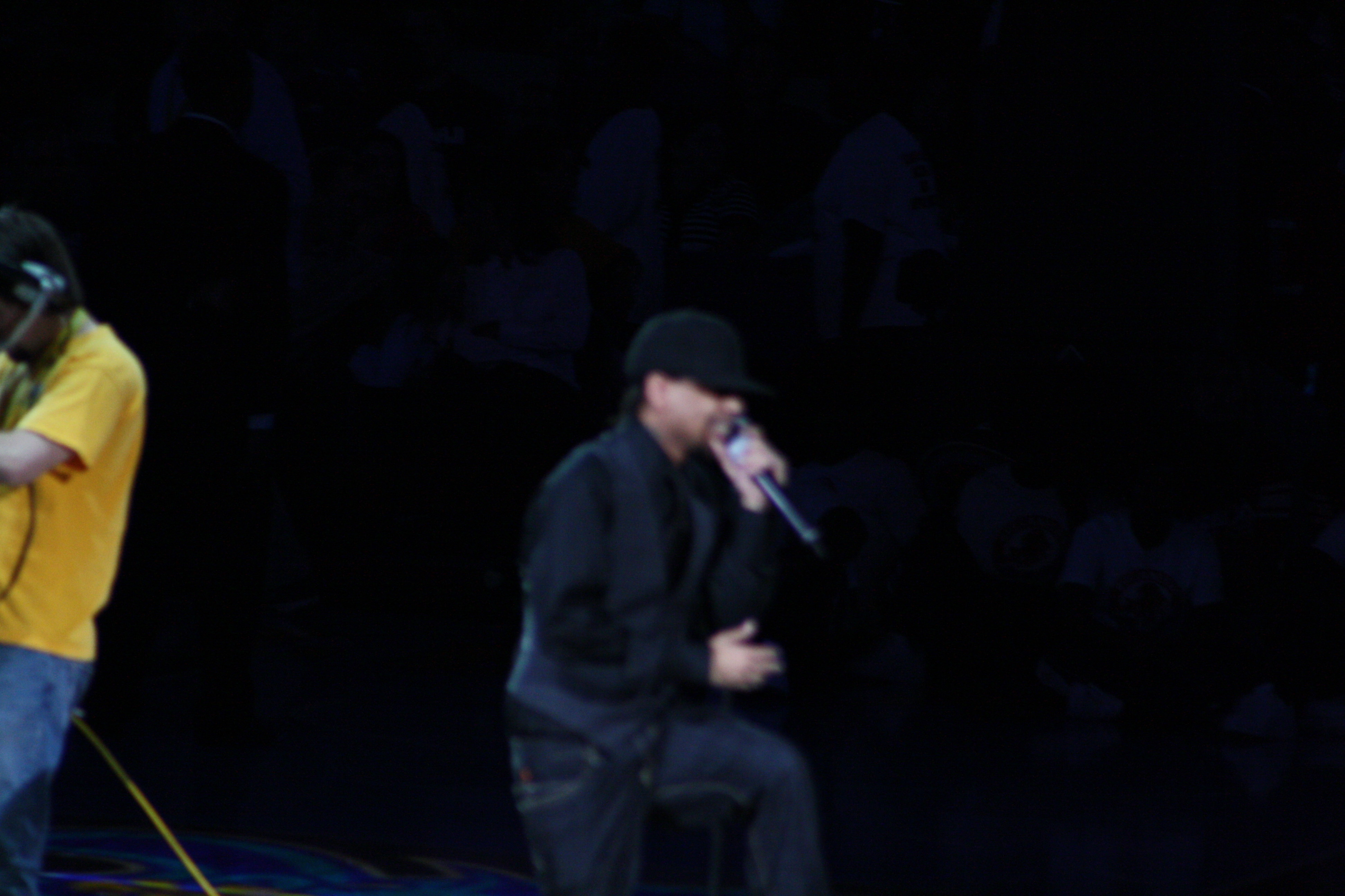 Singer J. Holiday performs at halftime of a New Orleans Hornets game.